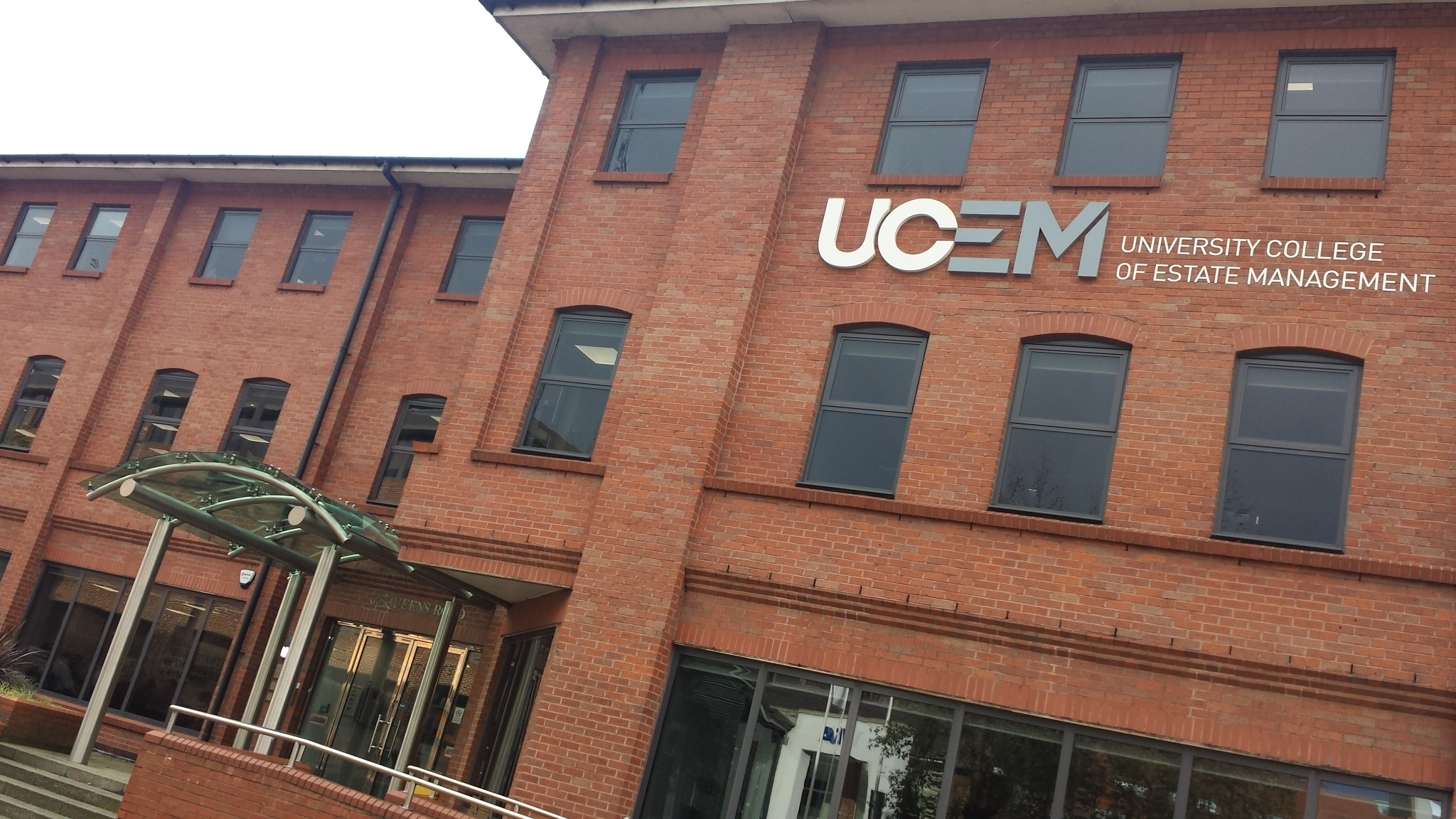 University College of Estate Management's new premises as of September 2016